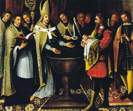 Saint Gerald of Braga baptises D. Afonso Henriques, first King of Portugal.